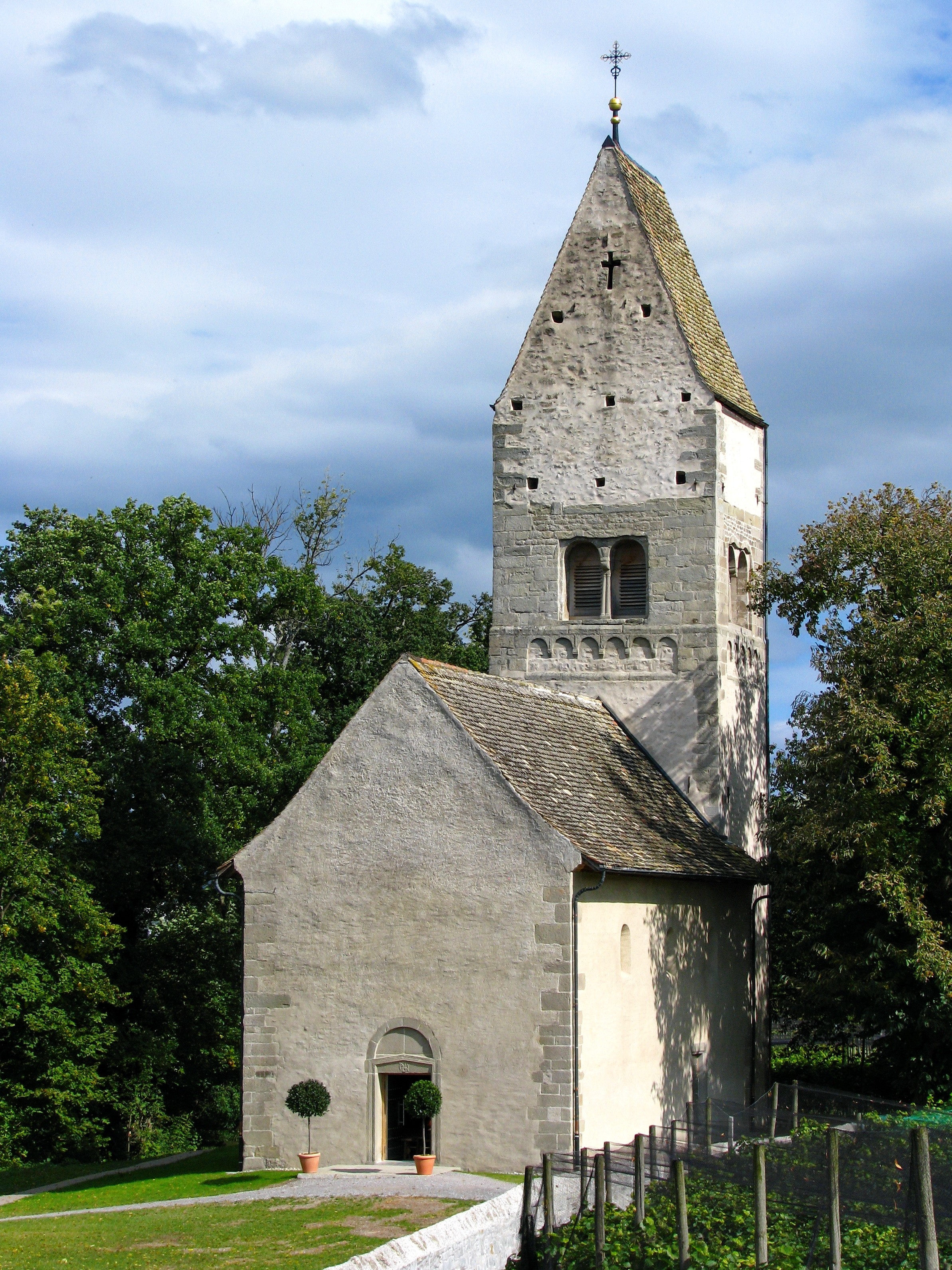 Lake Zürich, Ufenau island : St. Peter und Paul (1142), where Ulrich von Hutten (* 1488; † 1523) is buried.